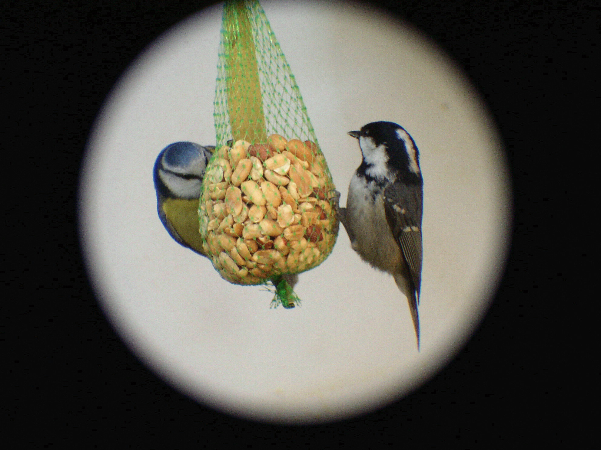 Coal tit and and a blue tit on the left side